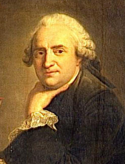 Portrait of Jean Baptiste Bourguignon d'Anville (1697-1782)